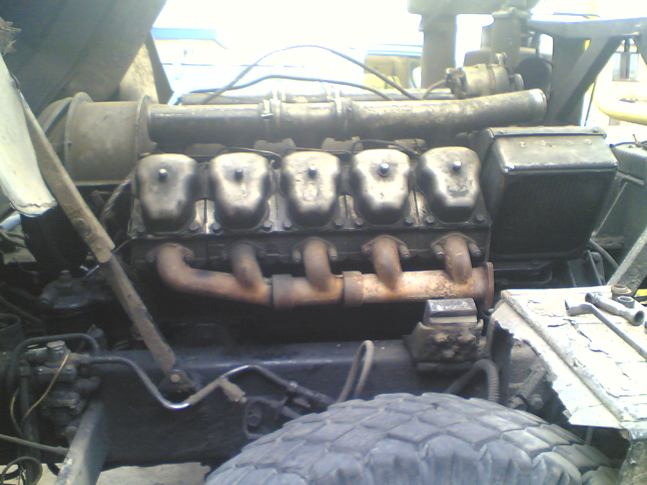 The engine of Tatra 815